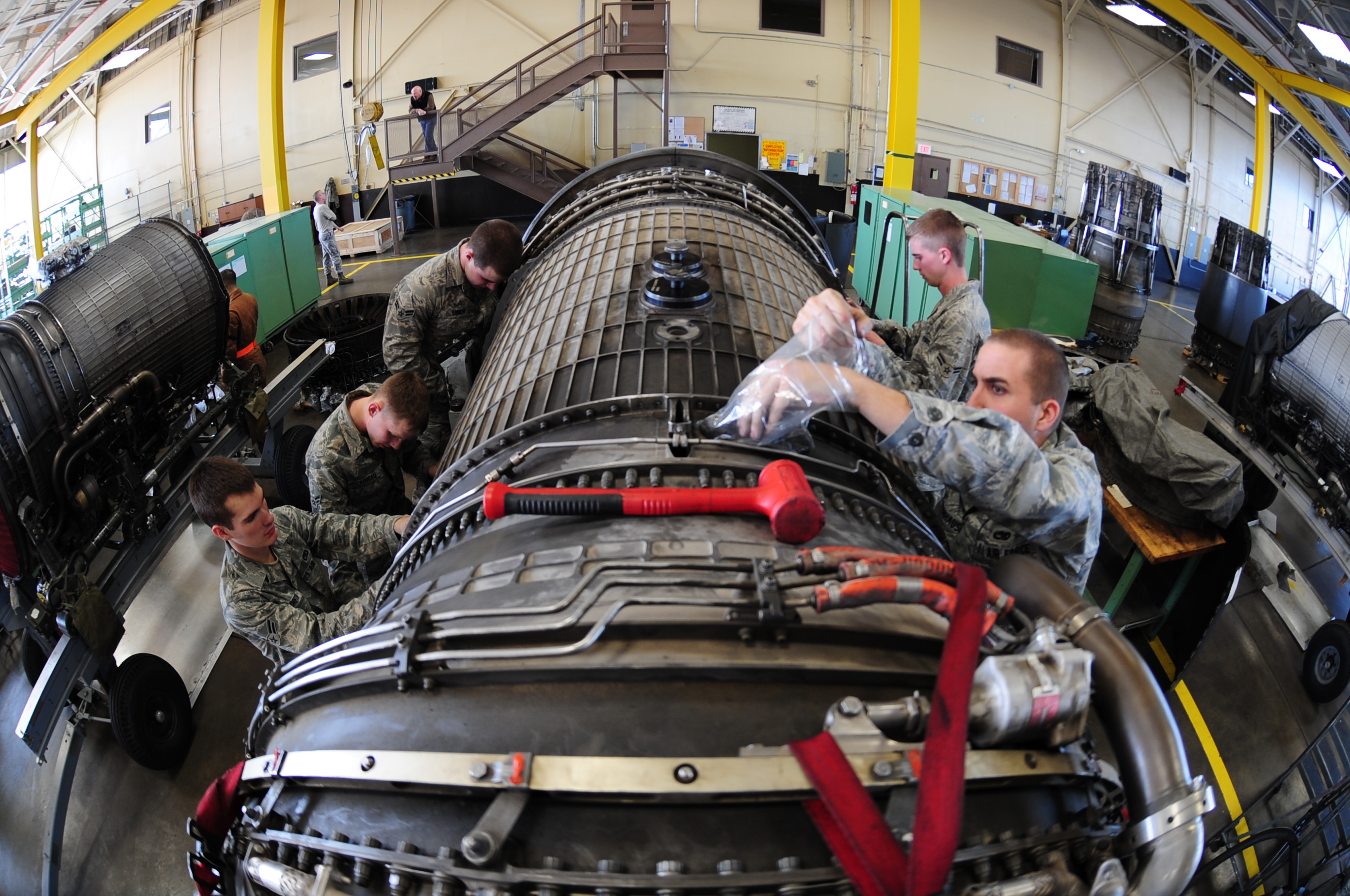 U.S. Air Force aerospace propulsion airmen with the 28th Maintenance Squadron work on a B-1B Lancer bomber engine at Ellsworth Air Force Base, S.D., on Feb. 3, 2010.